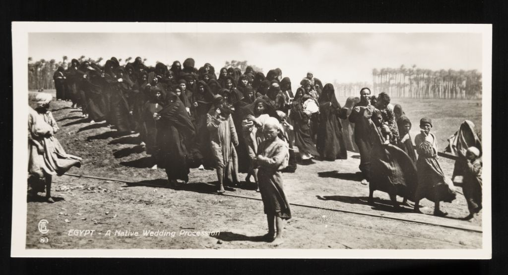 Large group clad in black robes marching